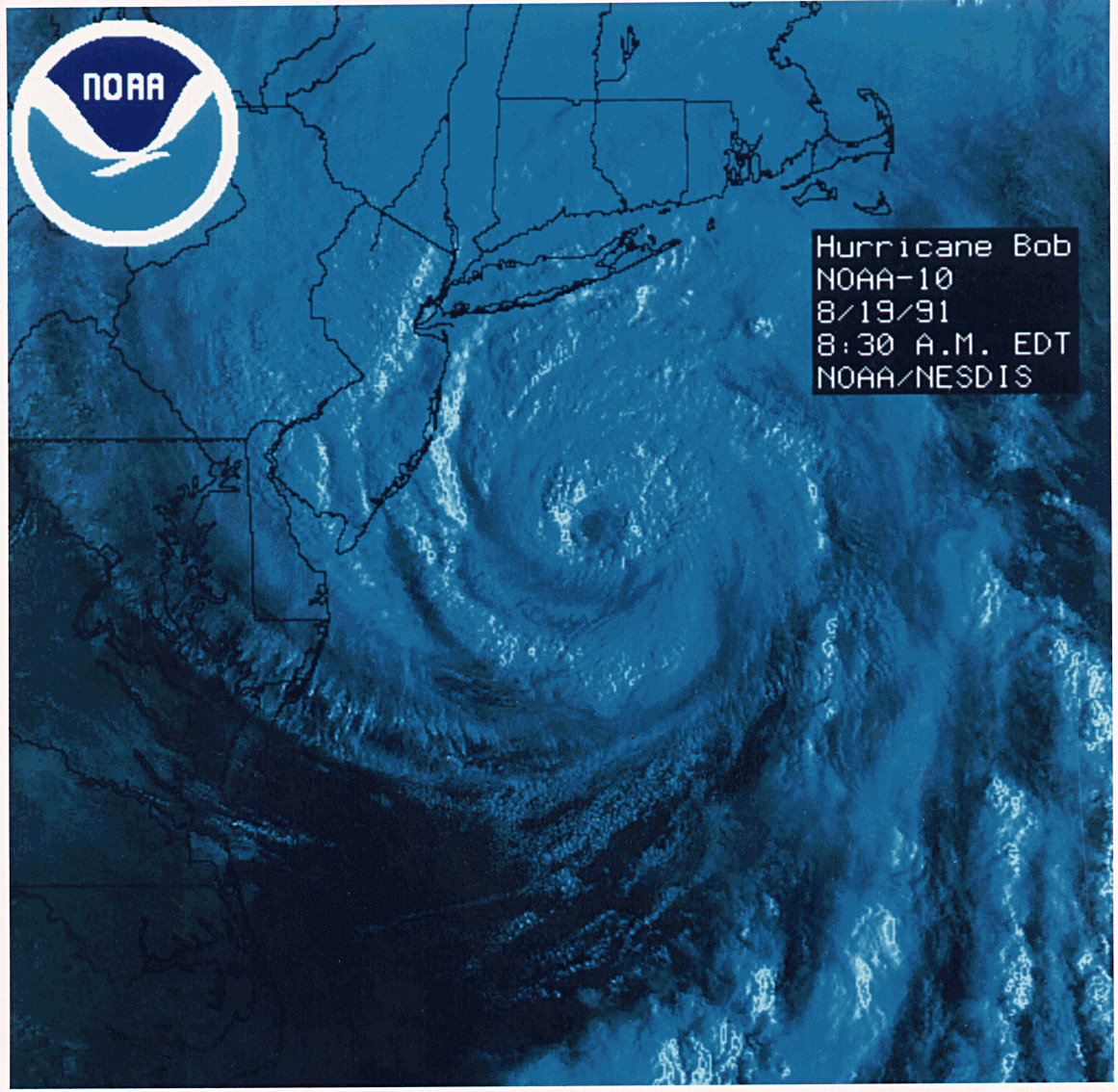 This is a satellite image from NOAA-10 of Hurricane Bob from August 19.